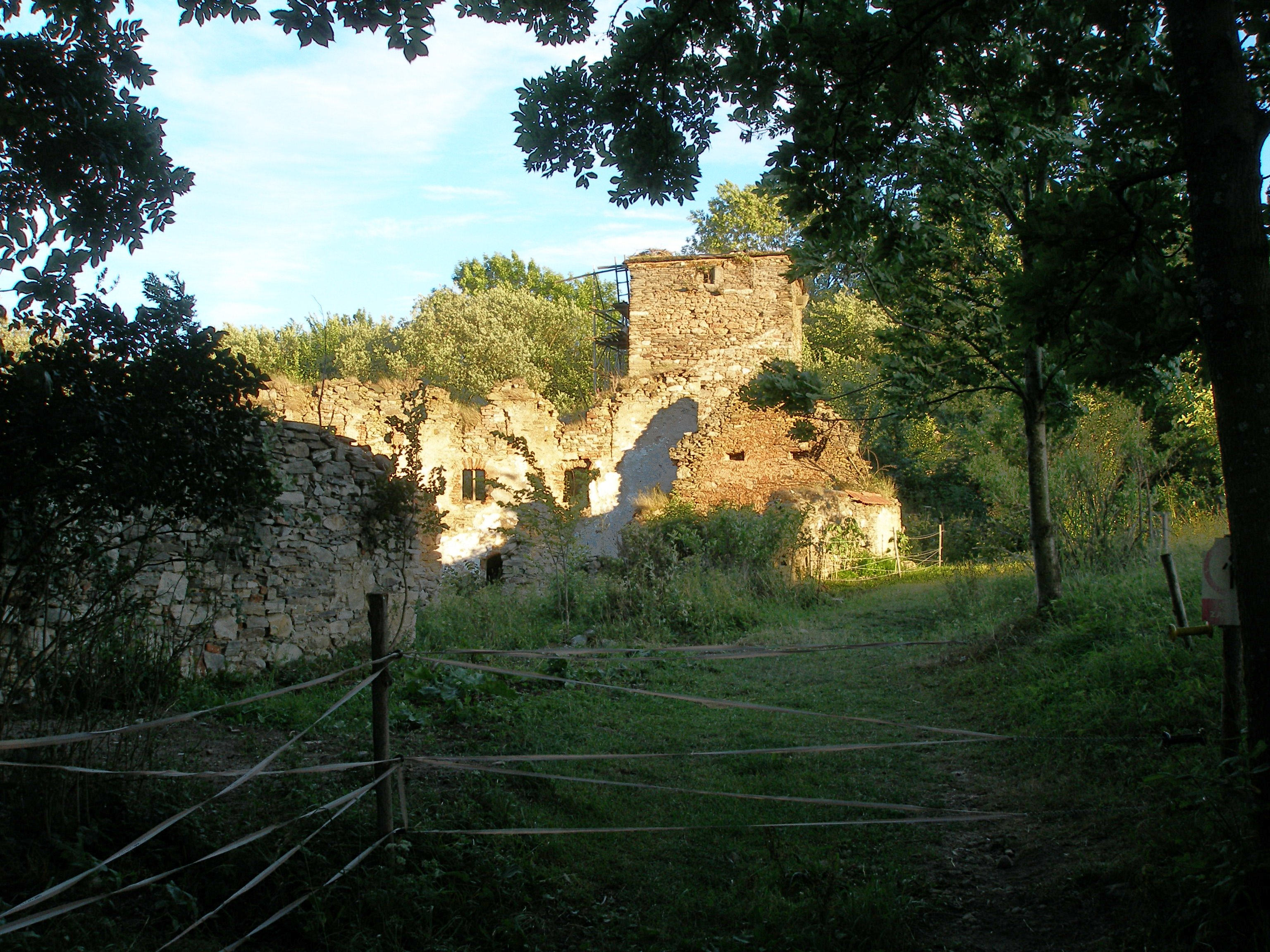 Pasovary - the ruin of the castle